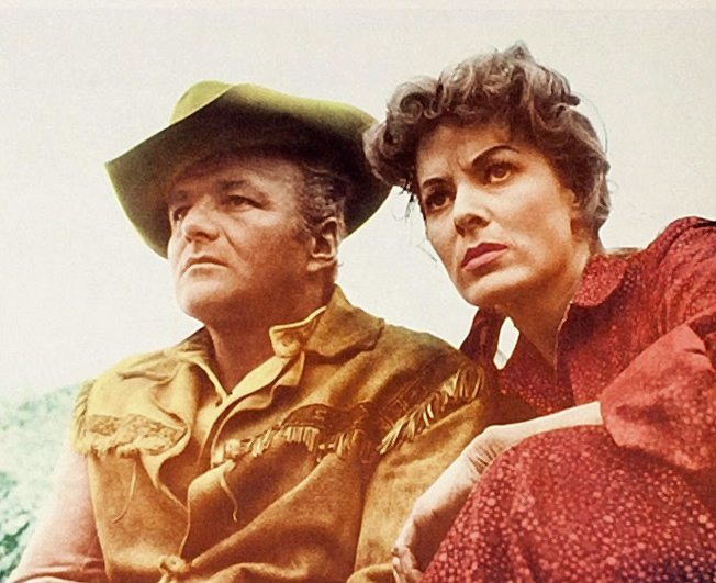 Still from the American western film The Deadly Companions (1961).